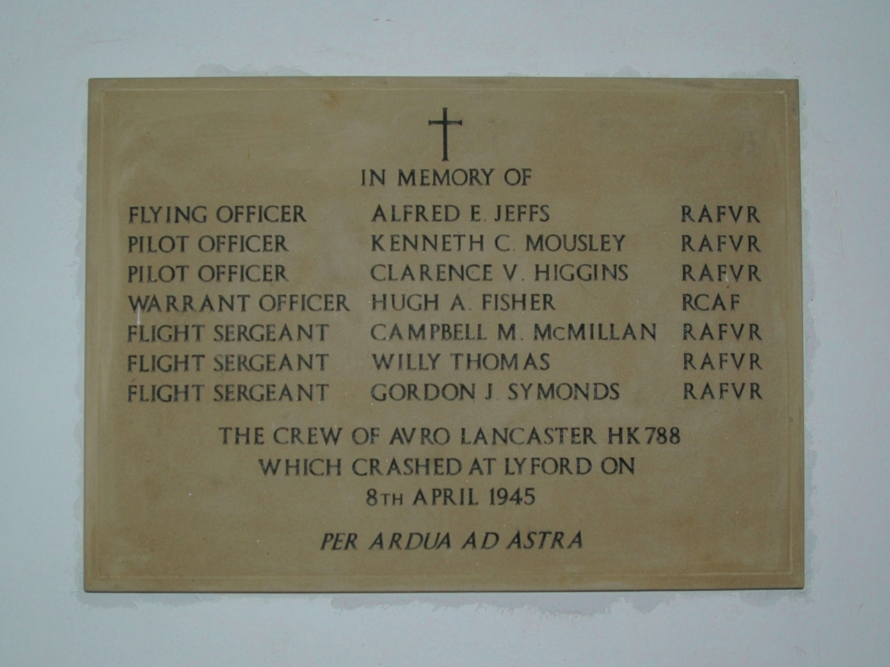 St Mary's parish church, Lyford, Oxfordshire (formerly Berkshire): plaque in memory of the crew of an RAF Lancaster that crashed on 8 April 1945